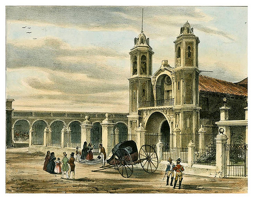 Iglesia del Santo Cristo en la Habana-Isla de Cuba Pintoresca